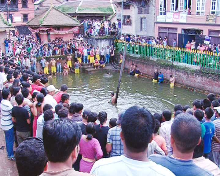 A festival celebrated in Khokana, Kathmandu